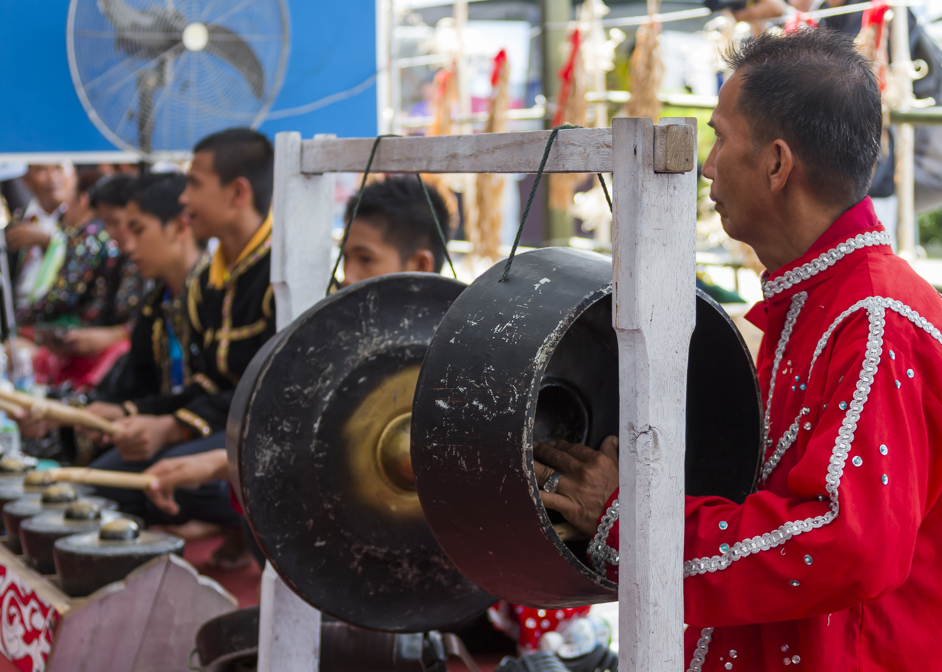 Penampang, Sabah: Dusun people playing gong